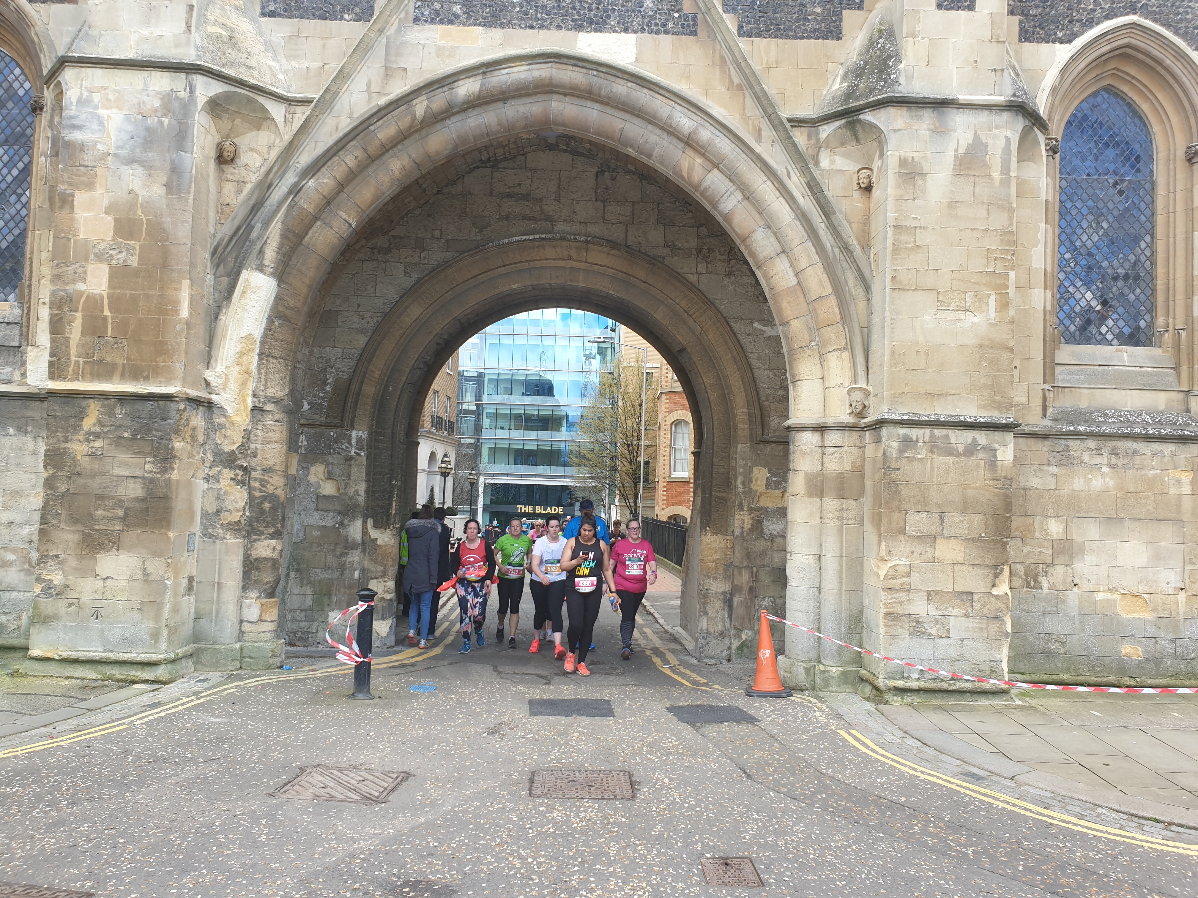 Runners in the Reading Half Marathon 2019 pass through the Abbey Gateway, with The Blade in the background.